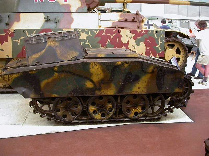 Springer Medium Demolition Vehicle, Sd.Kfz. 304 at Tank Museum Bovington (UK)